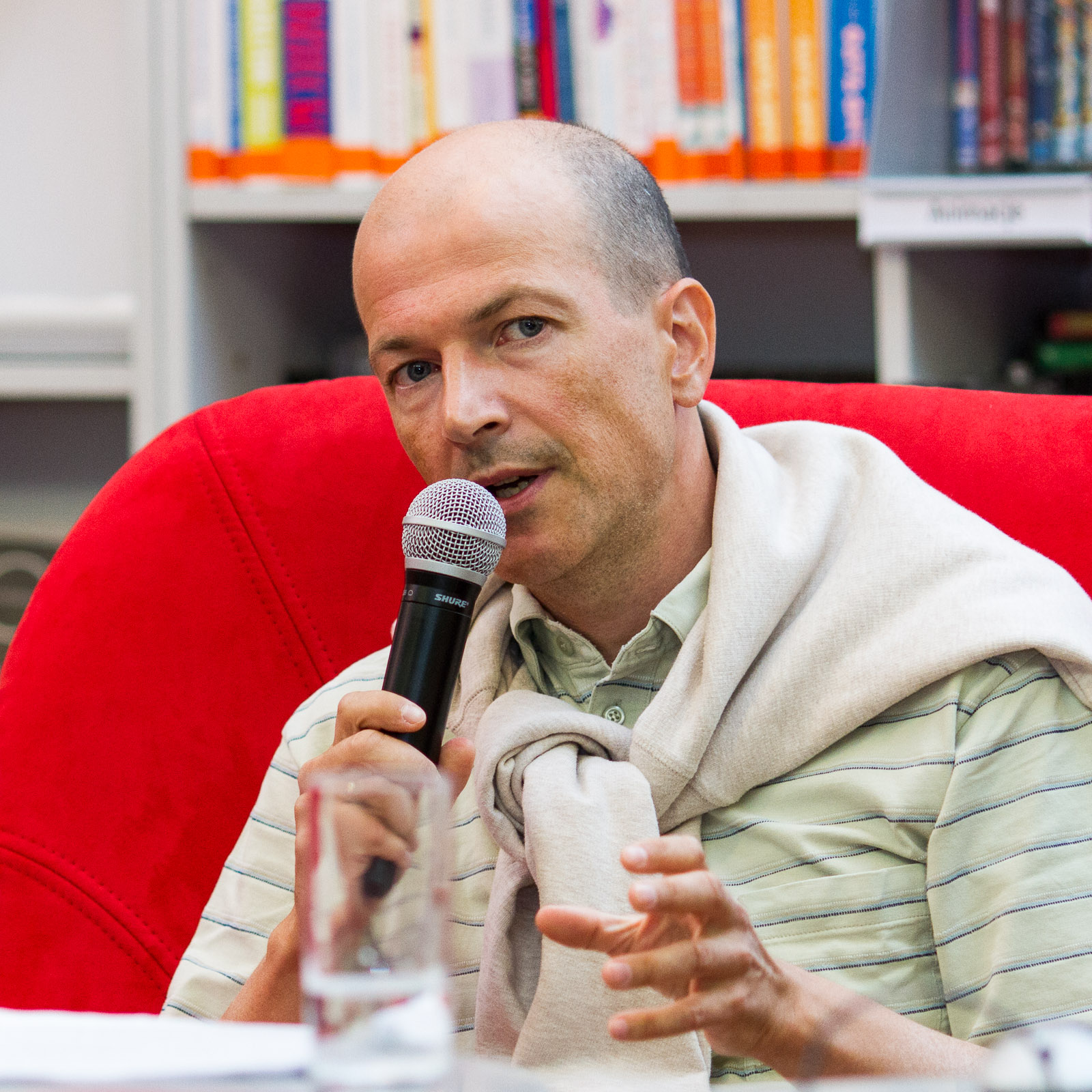 Tymofij Havryliv on Authors’ Reading Month 2015, Wrocław, Poland